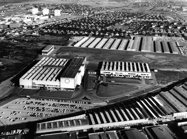 Mercedes-Benz Casting Mannheim, Germany, 1960